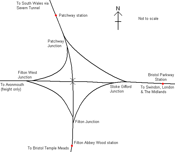 A diagram of the diamond railway junction of on the northern edge of Bristol, comprising (clockwise from the north) Patchway Junction, Stoke Gifford Junction, Filton Junction and Filton West Junction. There are several sidings, in different states of usability, in the centre of the junction but these are not shown on the map I used as the source.